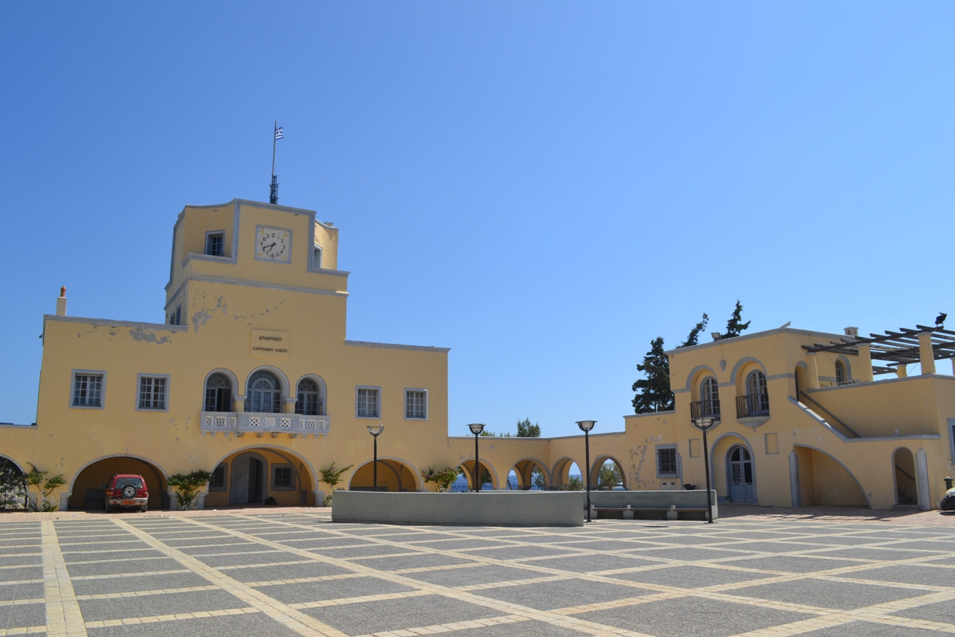 The local headquarters of the Dodecanese Prefecture, in Pigadia.